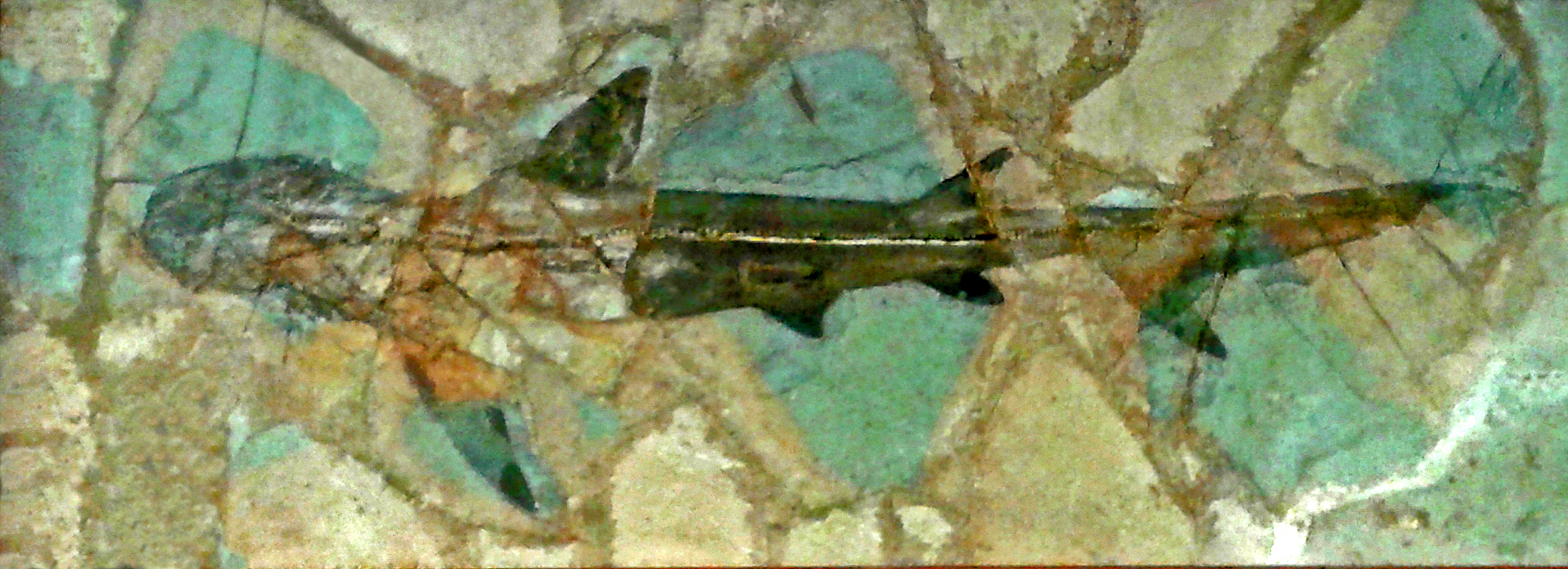 Fossil of Alopiopsis cuvieri from Monte Bolca on display at Museo Geologico G. Cappellini, Bologna